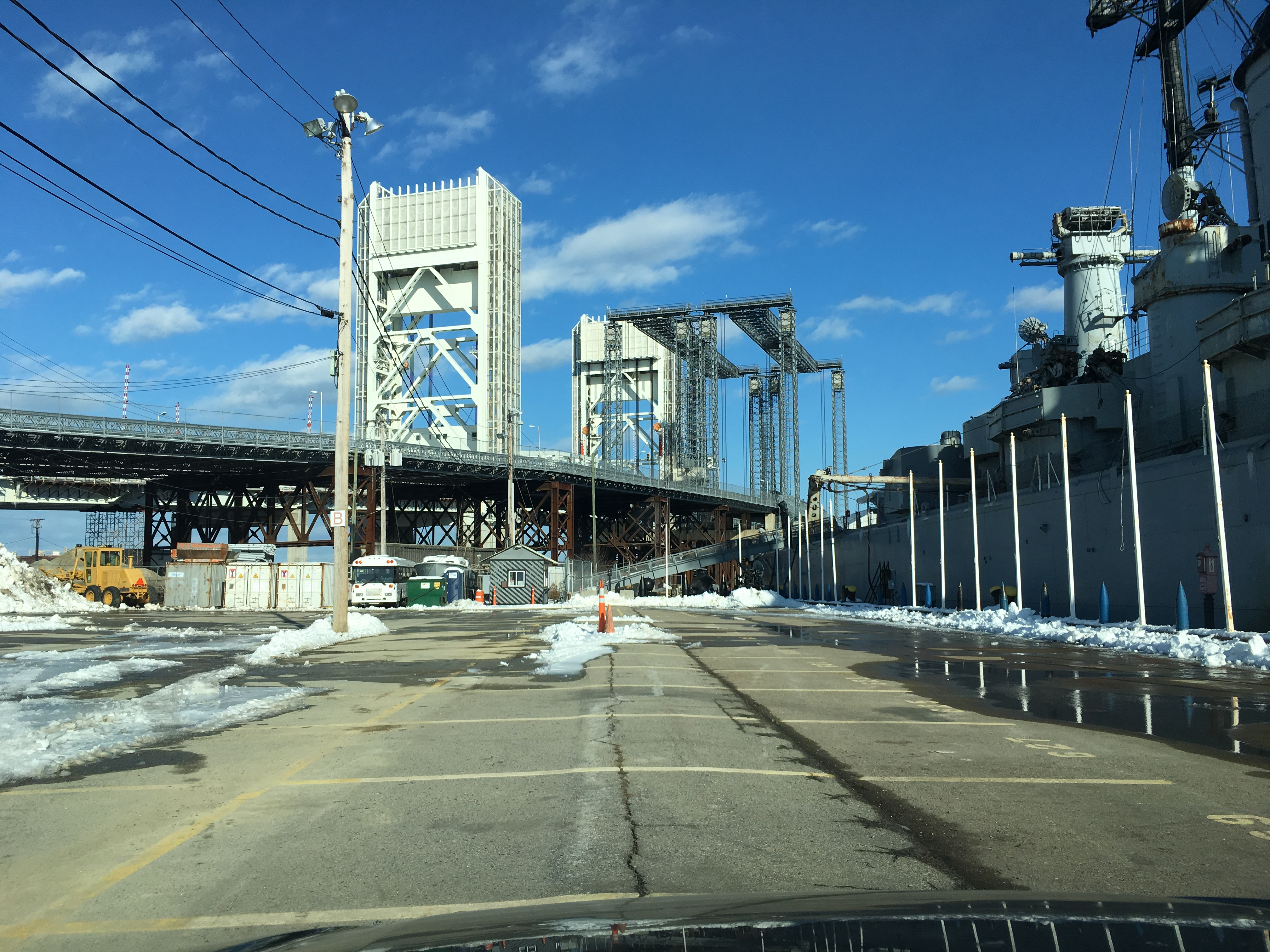 New Fore River Bridge and temporary Bridge from USS Salem parking lot